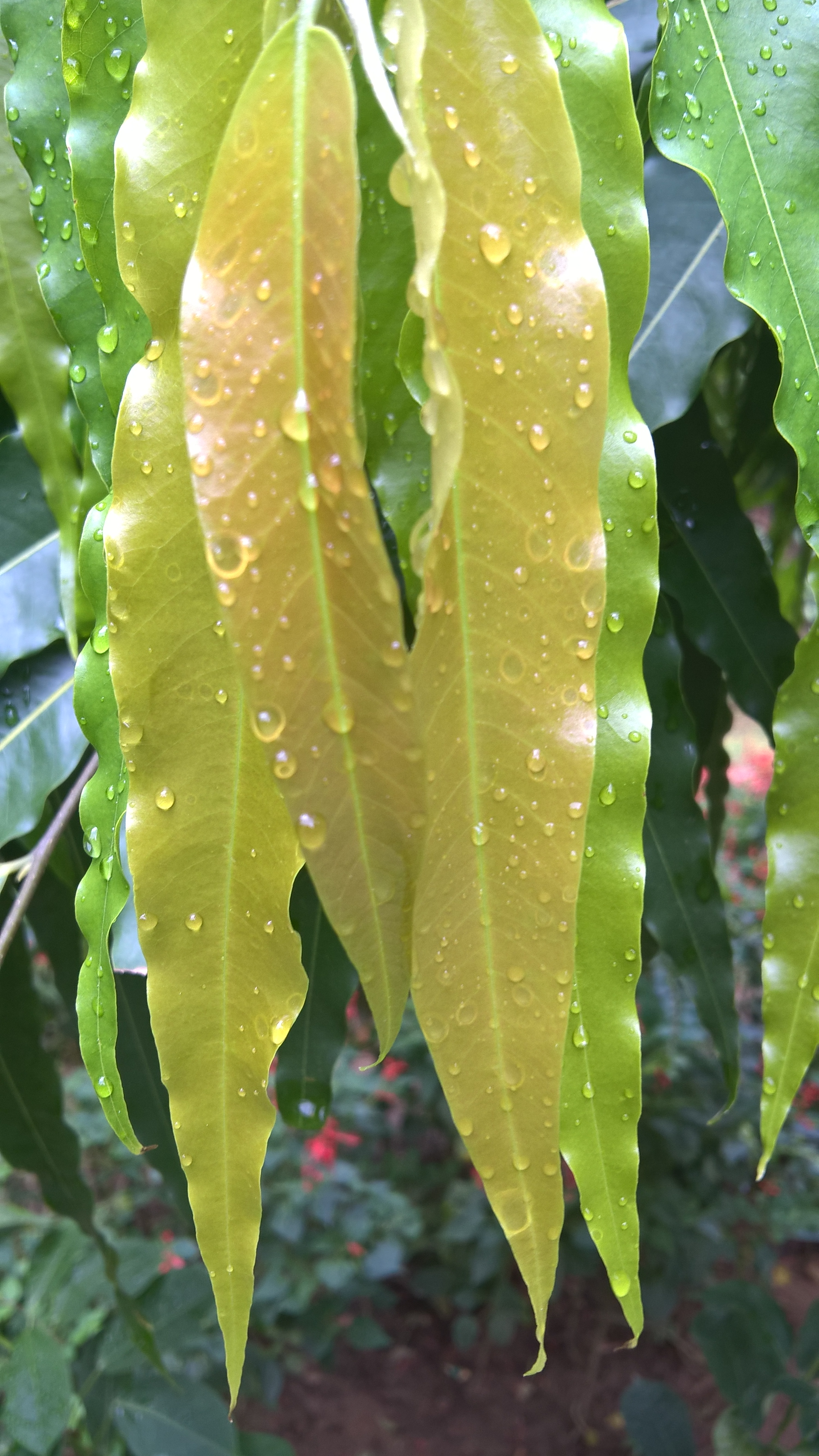 Hauz khas park- Asoka tree